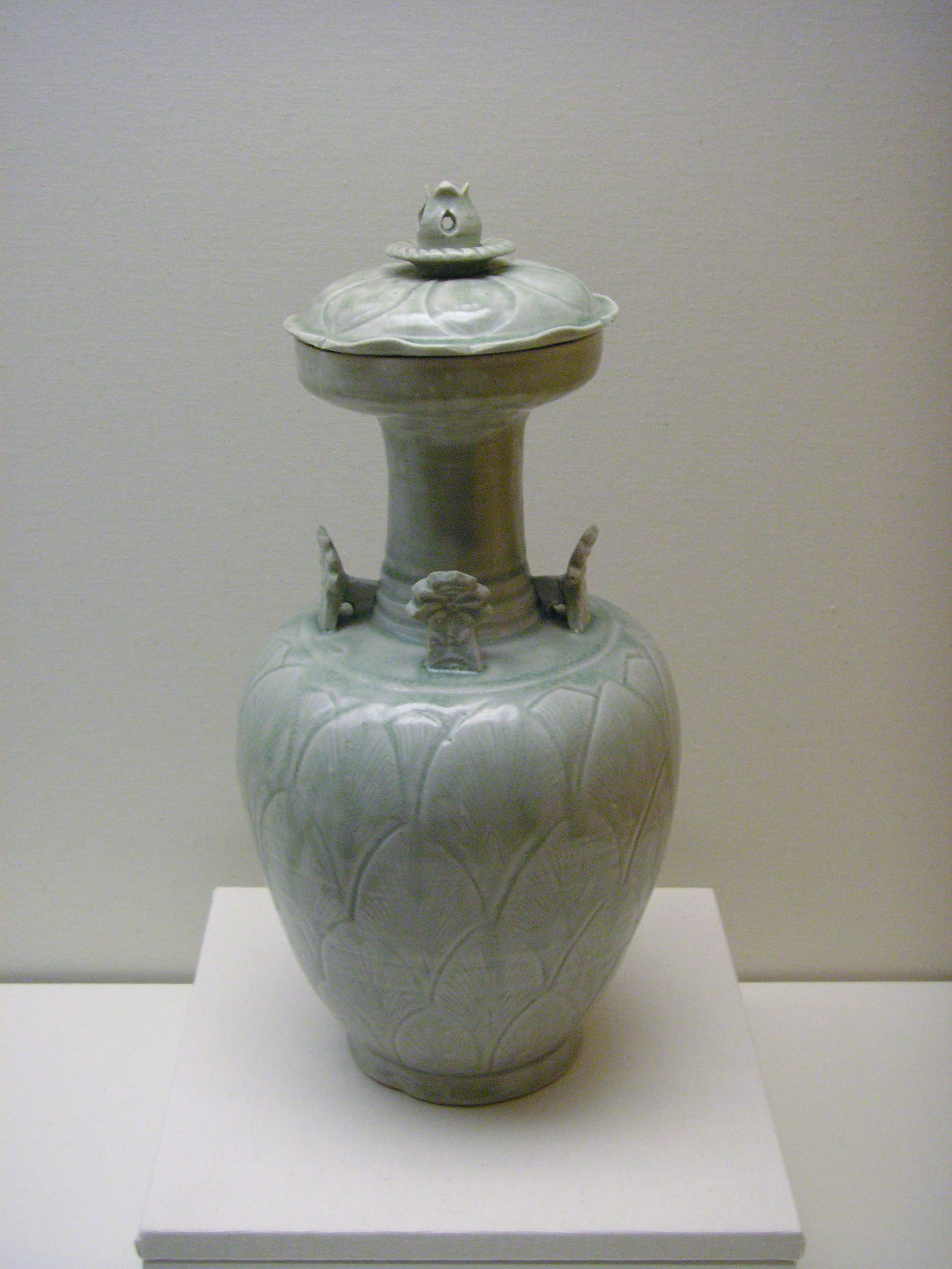 Funerary vase and cover, green-glazed stoneware. Longquan kills, Zhejiang province, Northern Song dynasty. 10th or 11th century C.E. Collection Yuegutang, Berlin. At Museum für Ostasiatische Kunst, Berlin-Dahlem.